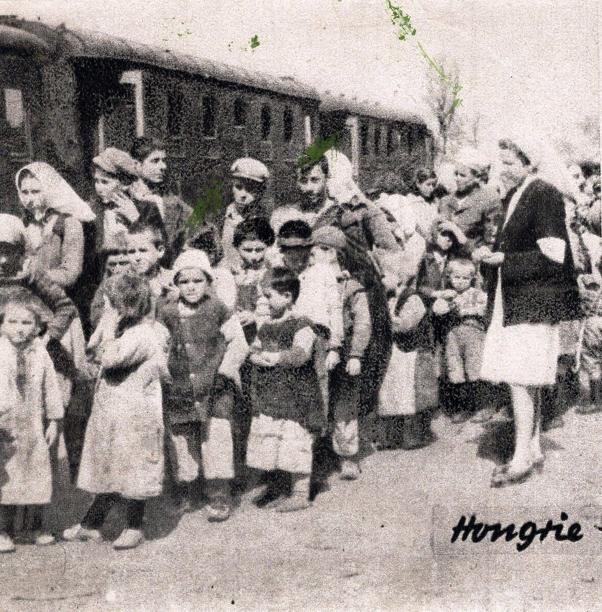 Children refugees from Aegean Macedonia in 1948 This media file is produced by Wikipedian in Residence in Category:Wikipedian in Residence at DARM in 2016.